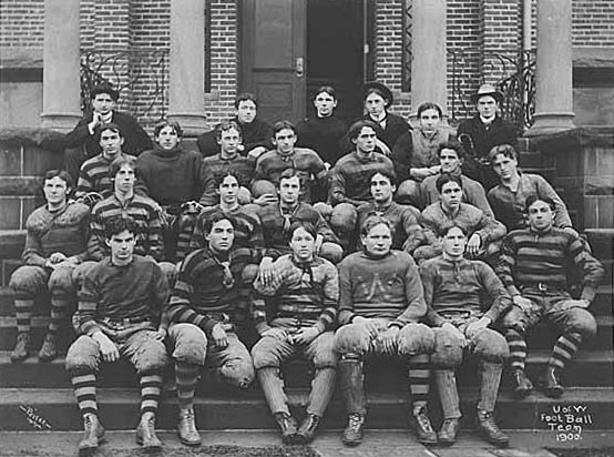 Caption on image: U of W Football Team 1900. Peiser 11/27/00 . Peiser 10002 Subjects (LCTGM): Football--Washington (State)--Seattle; University of Washington--People--Washington (State)--Seattle